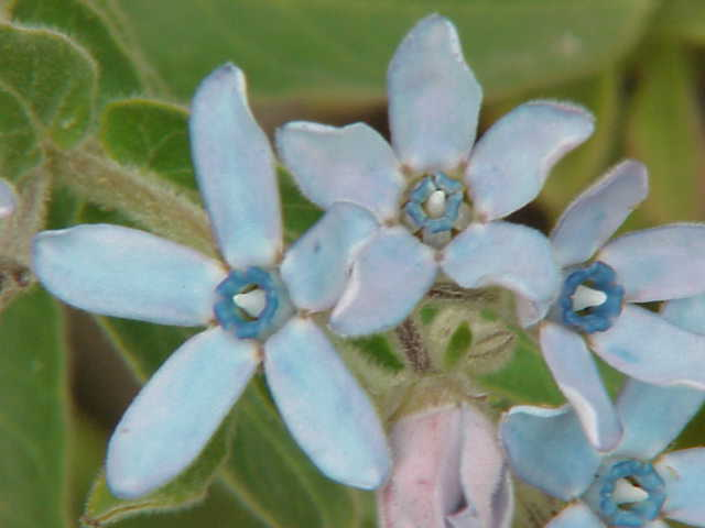 Species: Oxypetalum coeruleum Family: Asclepiadaceae Image No. 1